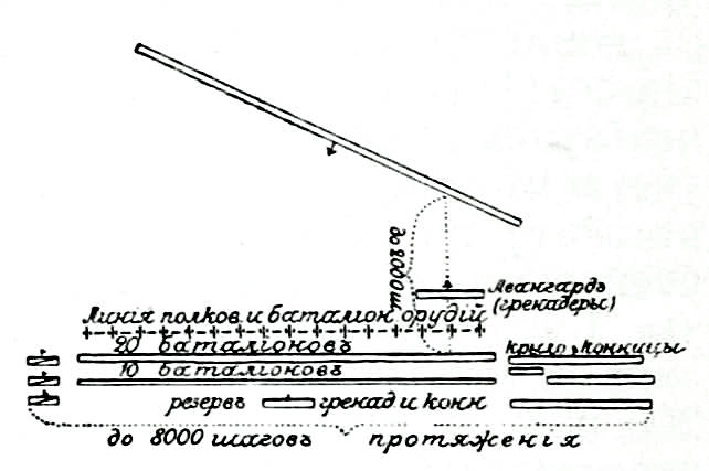 Military art (military science)